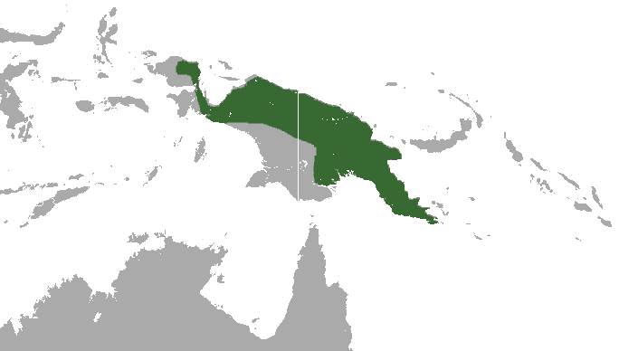 Feather-tailed Possum (Distoechurus pennatus) range